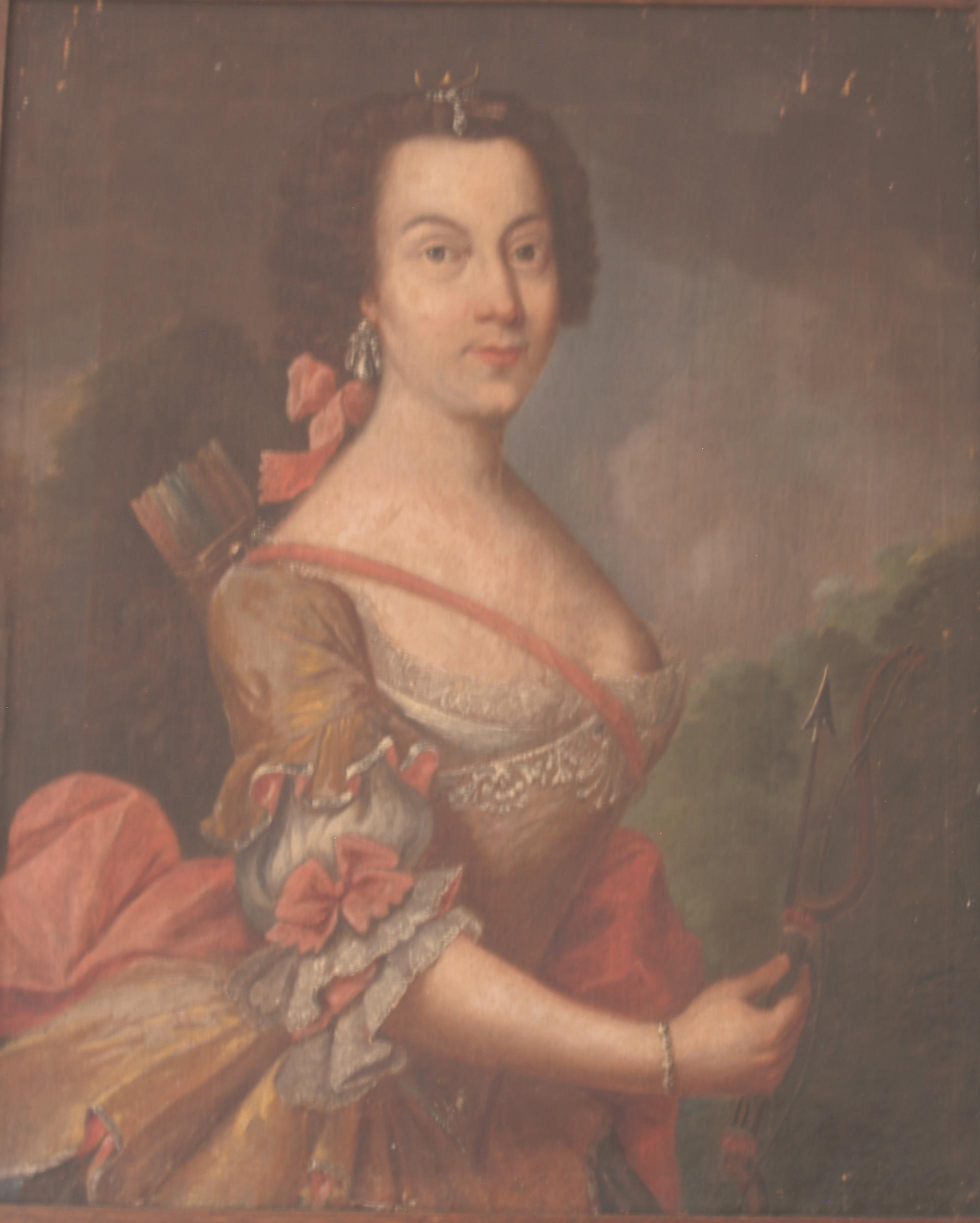 Probably portrait of Eleonore von Barfuss as Diana